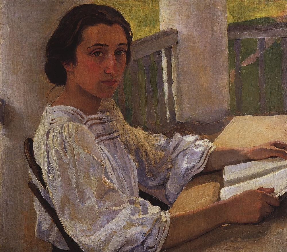 portrait-of-e-solntseva-sister-of-artist